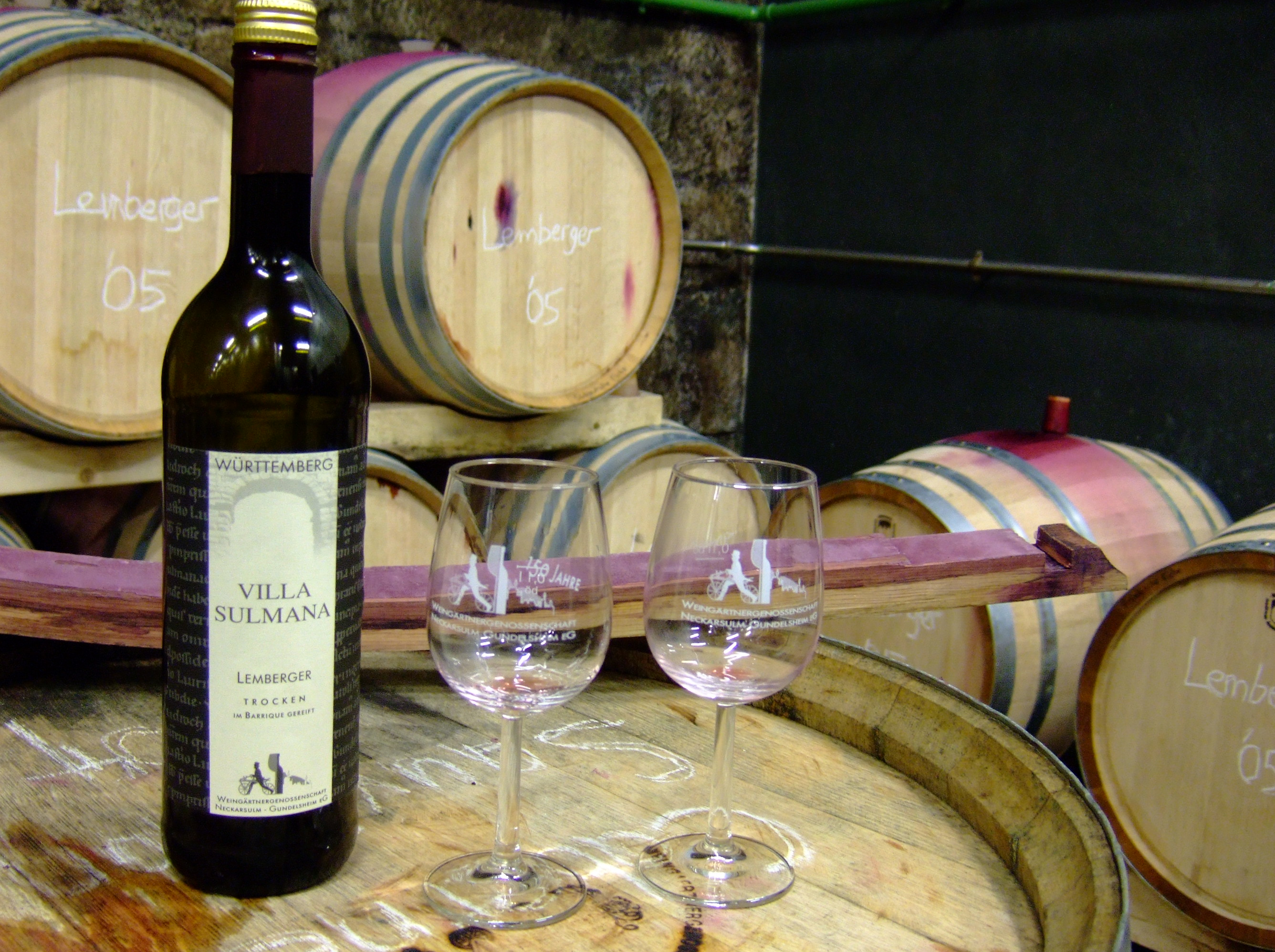 Winetasting "Villa Sulmana" in the Basement Of the Winepress